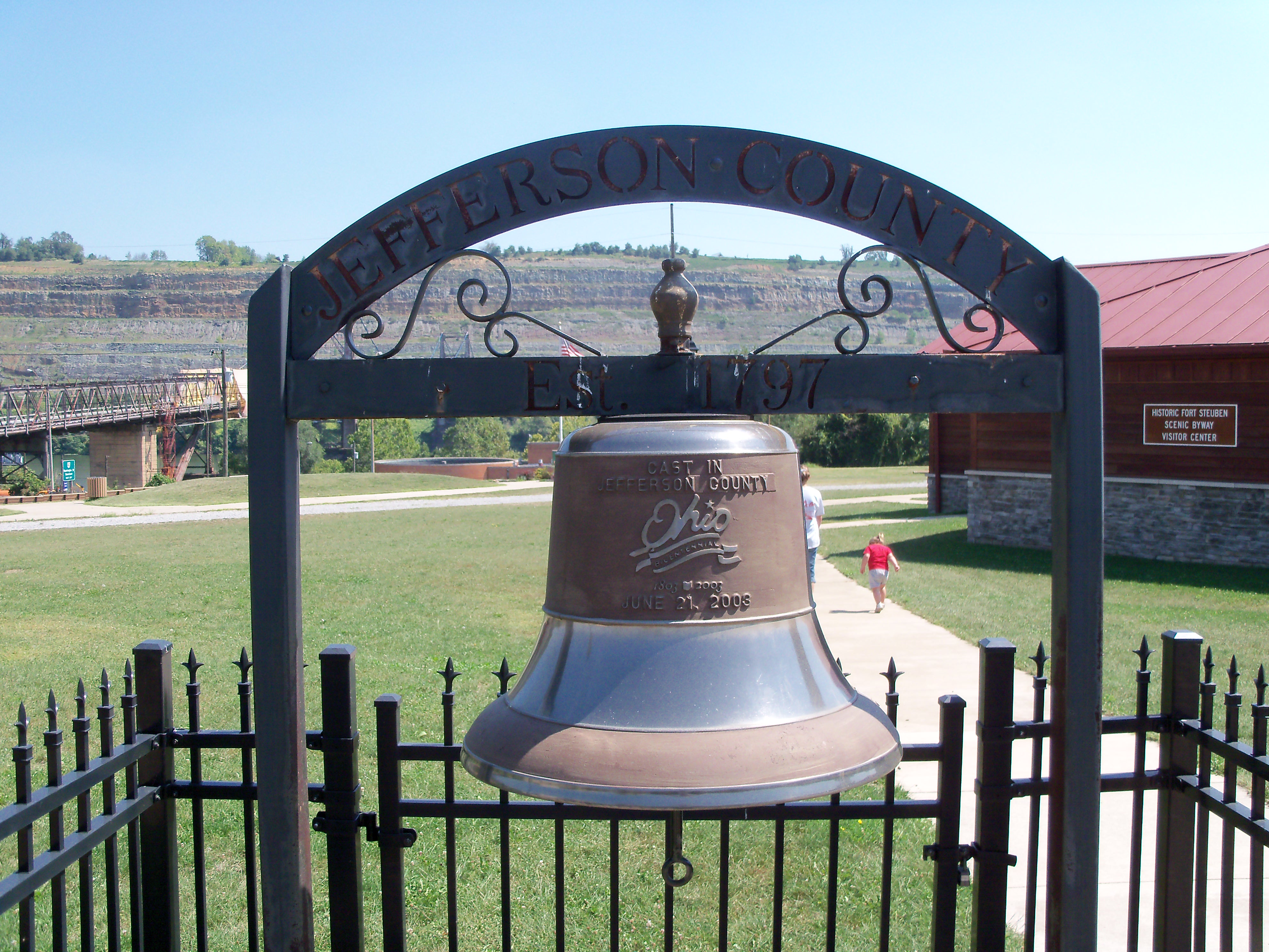 To celebrate the bicentennial of the state of Ohio in 2003, a portable foundry was taken to each of the 88 counties and bells were cast there. This is Jefferson County, Ohio's example, front of bell shown, at Market and Third streets, downtown, Steubenville, Ohio.